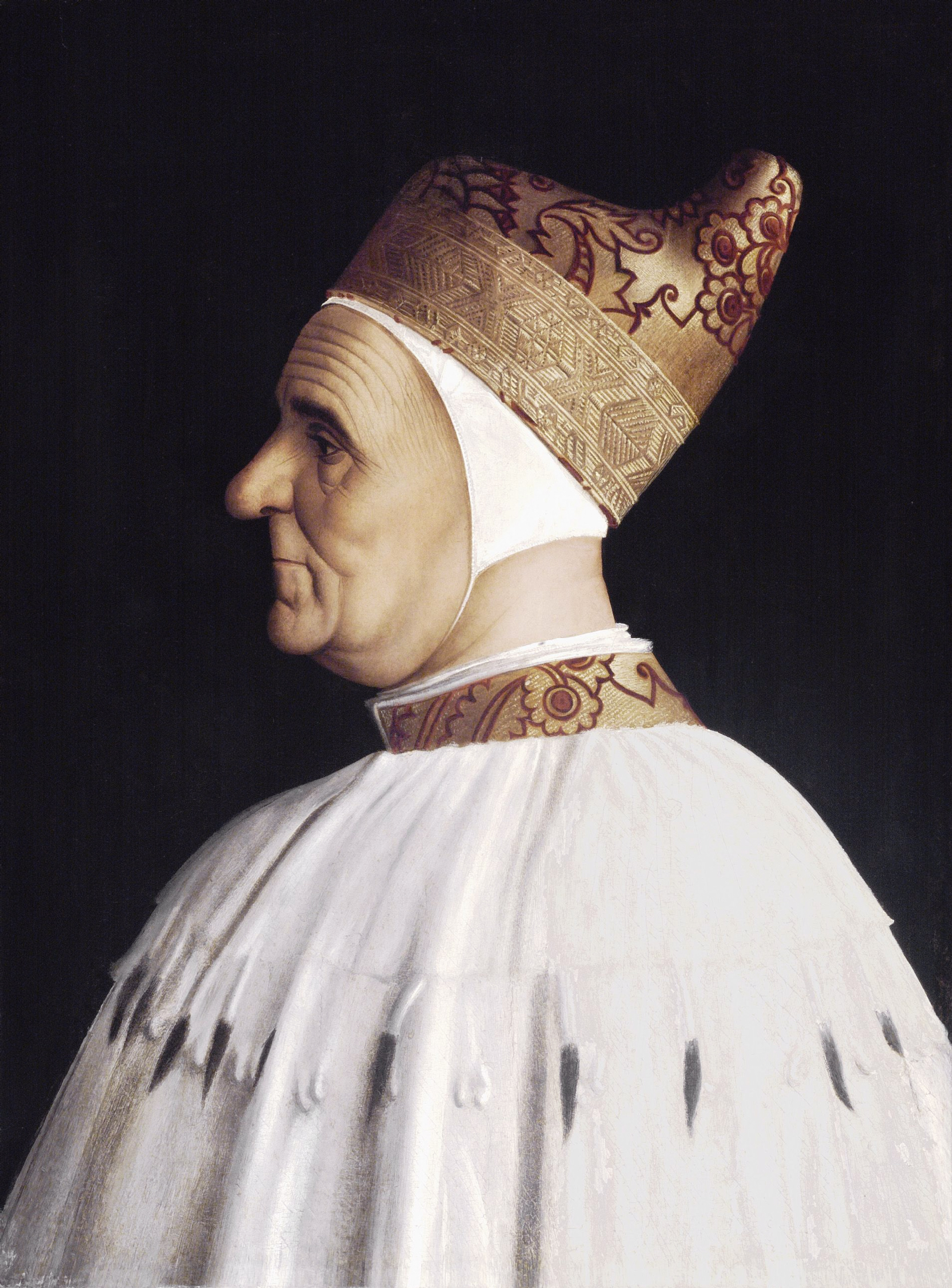 Doge Giovanni Mocenigo, 1478-1485